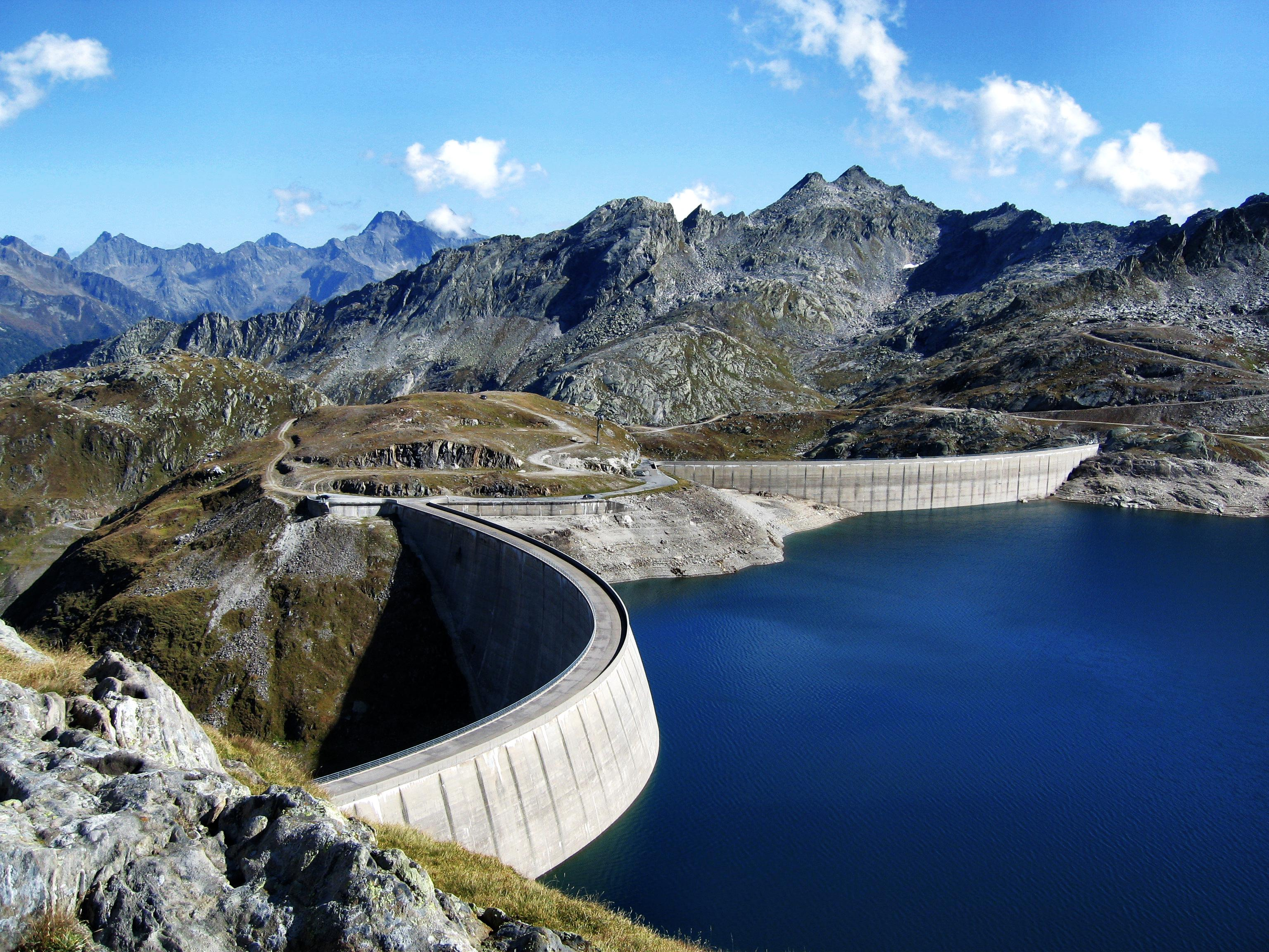 Lake Naret, canton of Ticino.